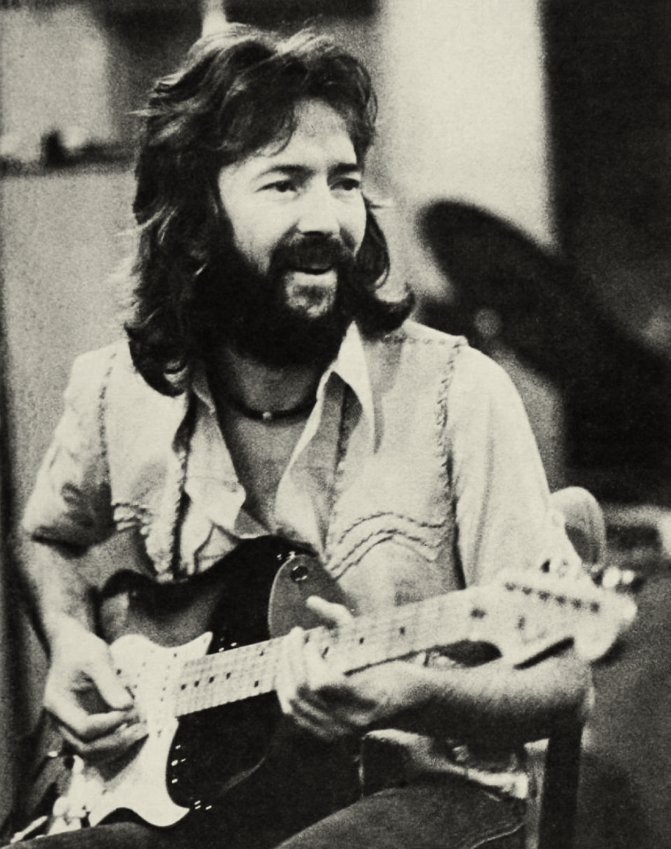 Trade ad for Eric Clapton's single "Hello Old Friend".To better adapt it to his respective Wikipedia article, the ad was cropped and cleaned in a graphics editing program. The original can be viewed at the source below.